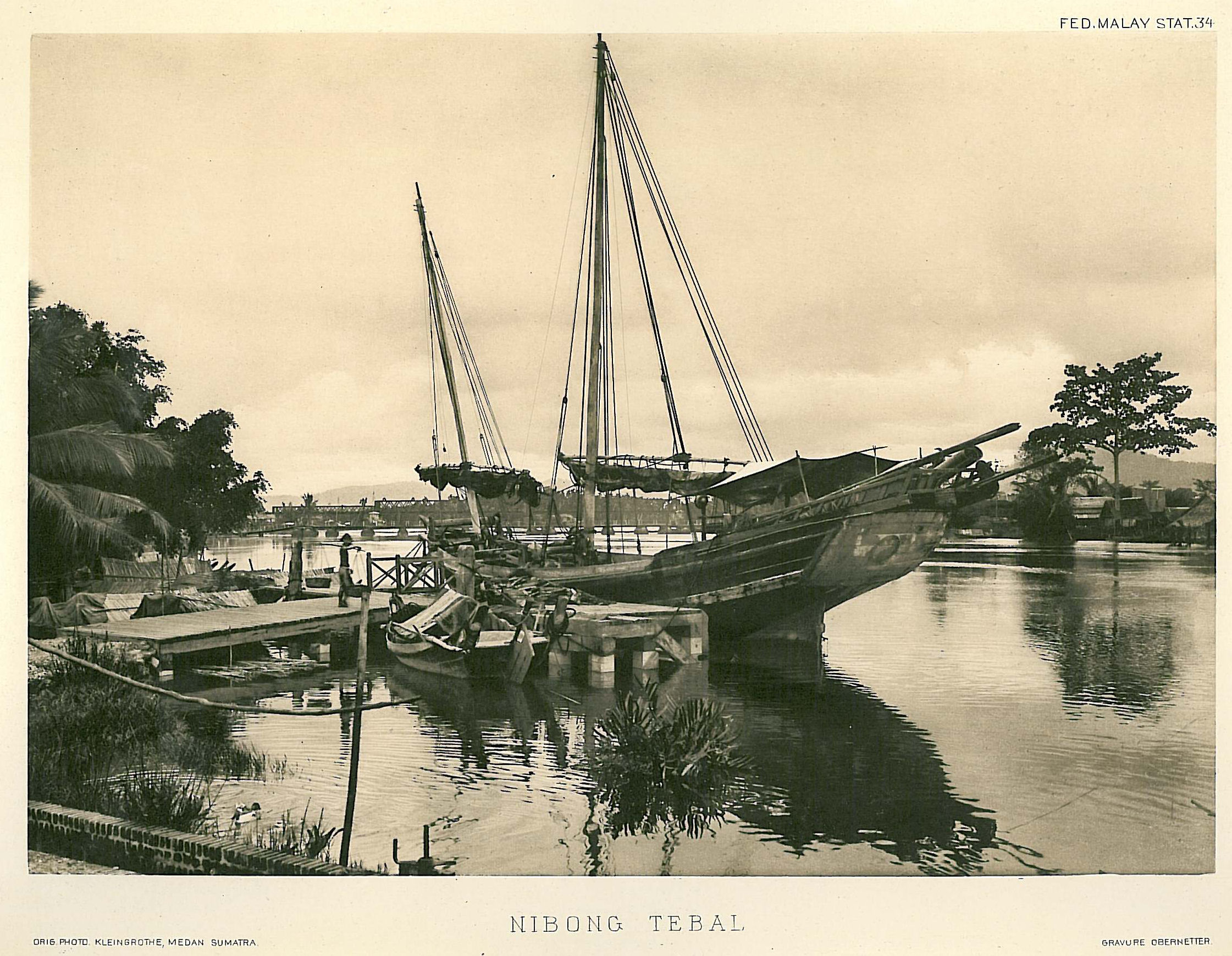 Historical Picture of Nibong Tebal, Penang, Malaysia